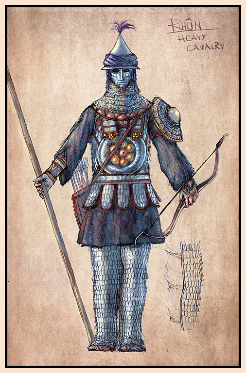 A soldier from Rhûn in Middle-earth.